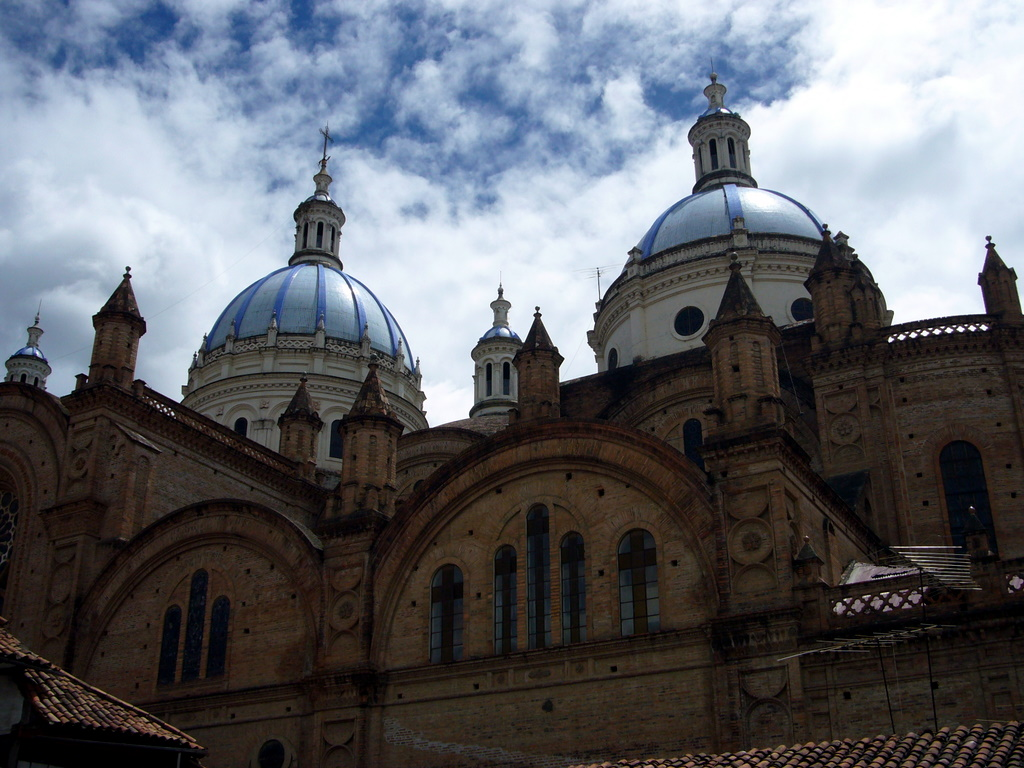 Domes of the New Cathedral in Cuenca